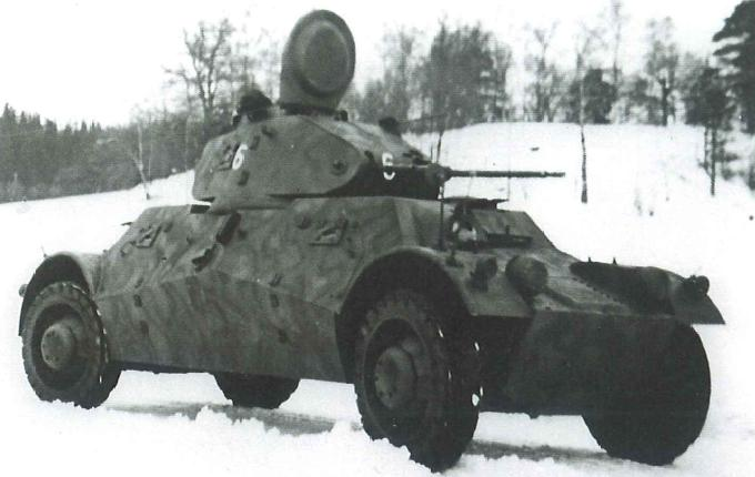 Swedish Pbil m/40 Lynx armored car